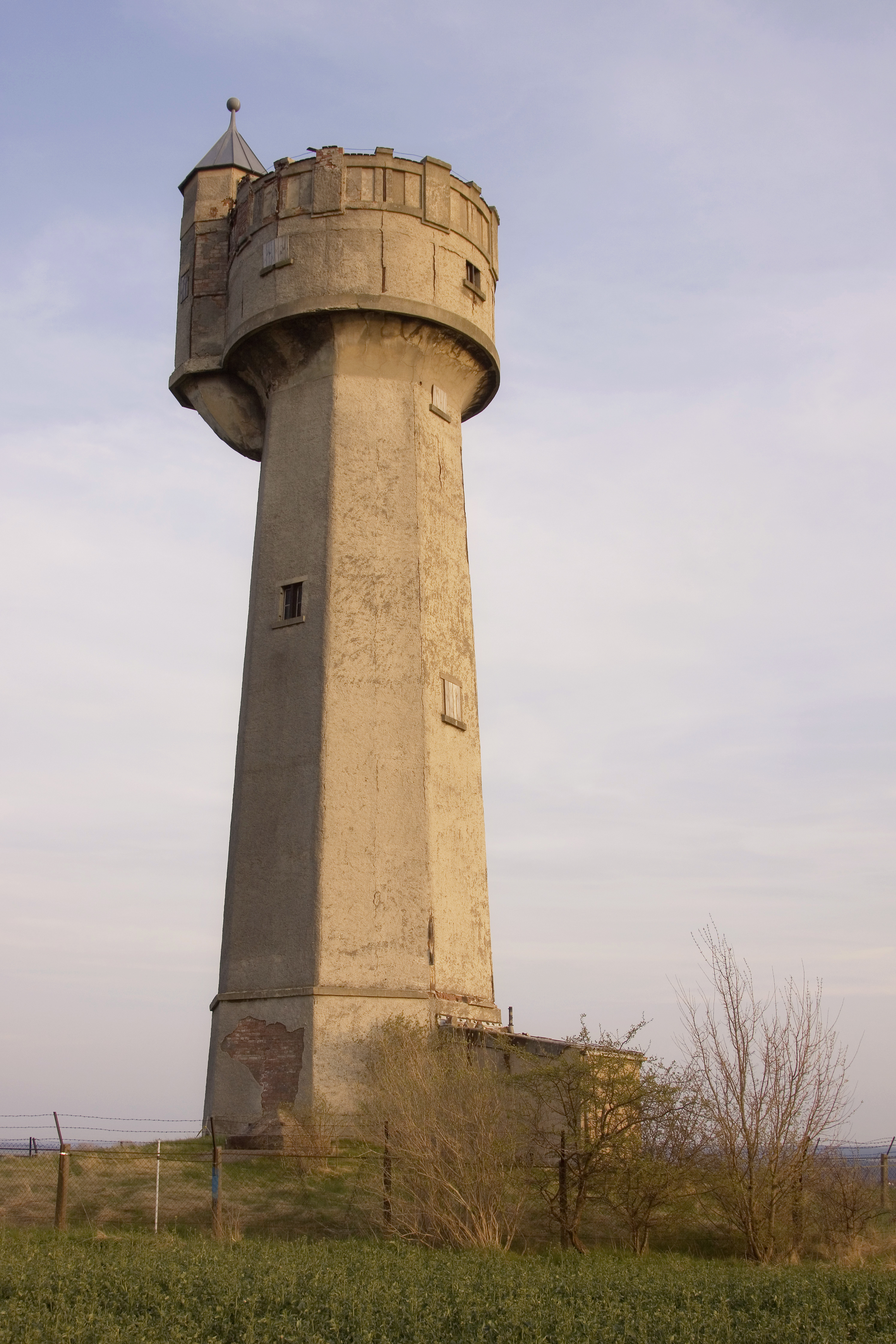 Bräunsdorf (Oberschöna), water tower